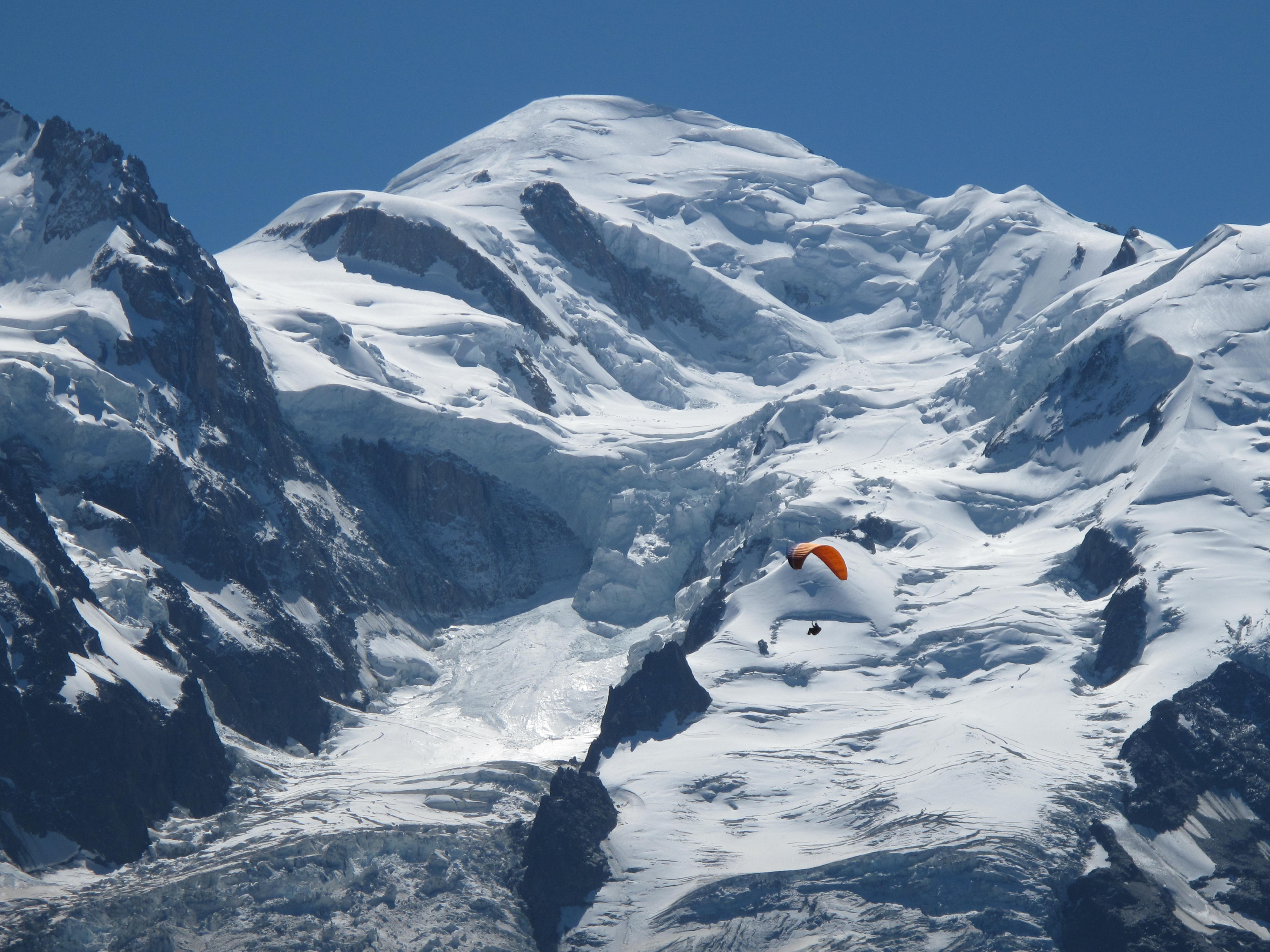 Mont-Blanc seen from the Brevent (Haute-Savoie, France), more precisely from the Planpraz station.